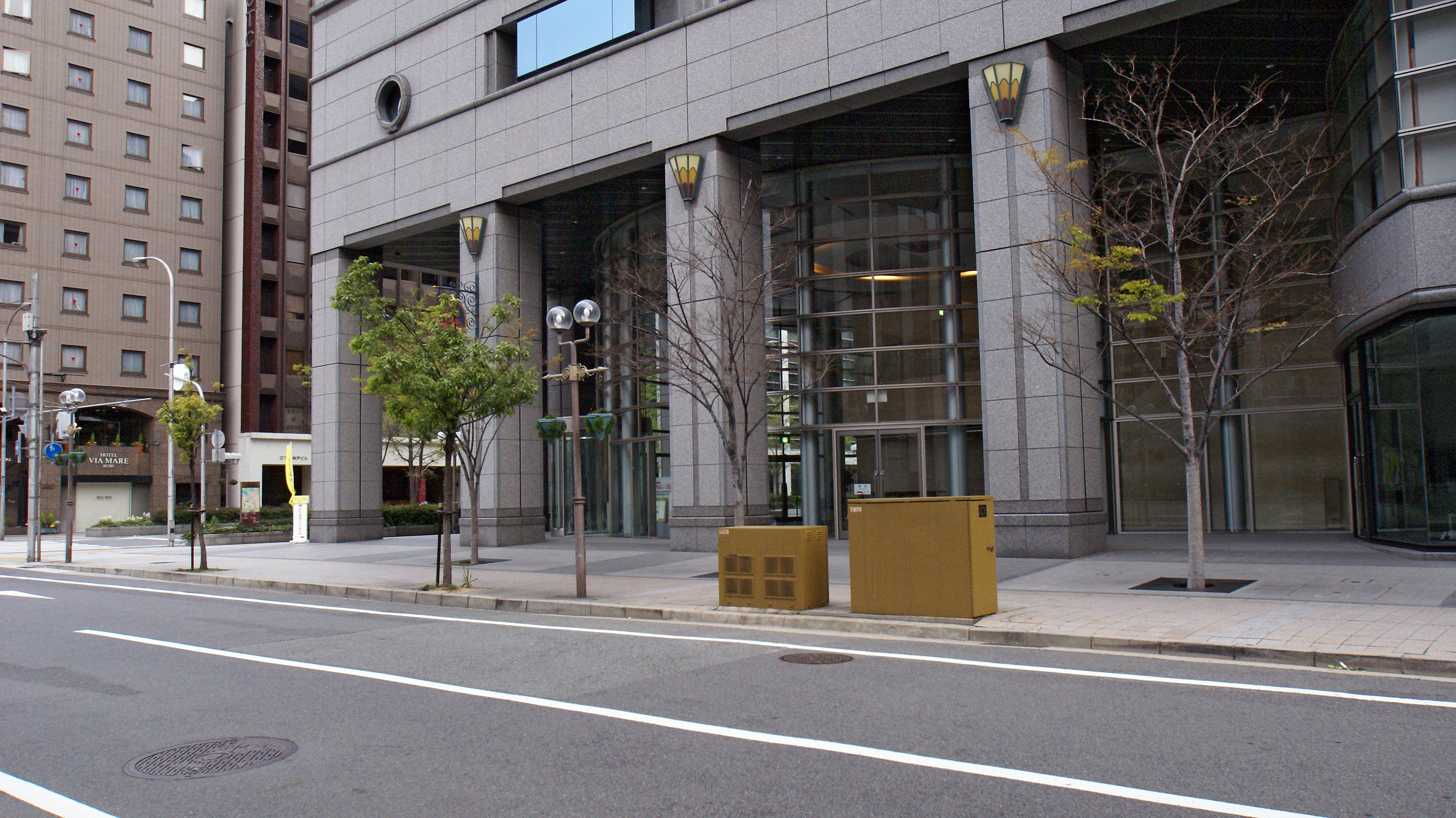 Kobe Lamp Museum in Kobe, Hyogo prefecture, Japan